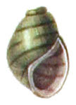 drawing of the shell of Leptoxis taeniata